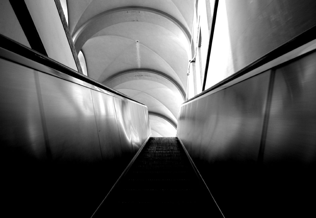 Perugia, escalators in the citadel known as the Rocca Paolina.